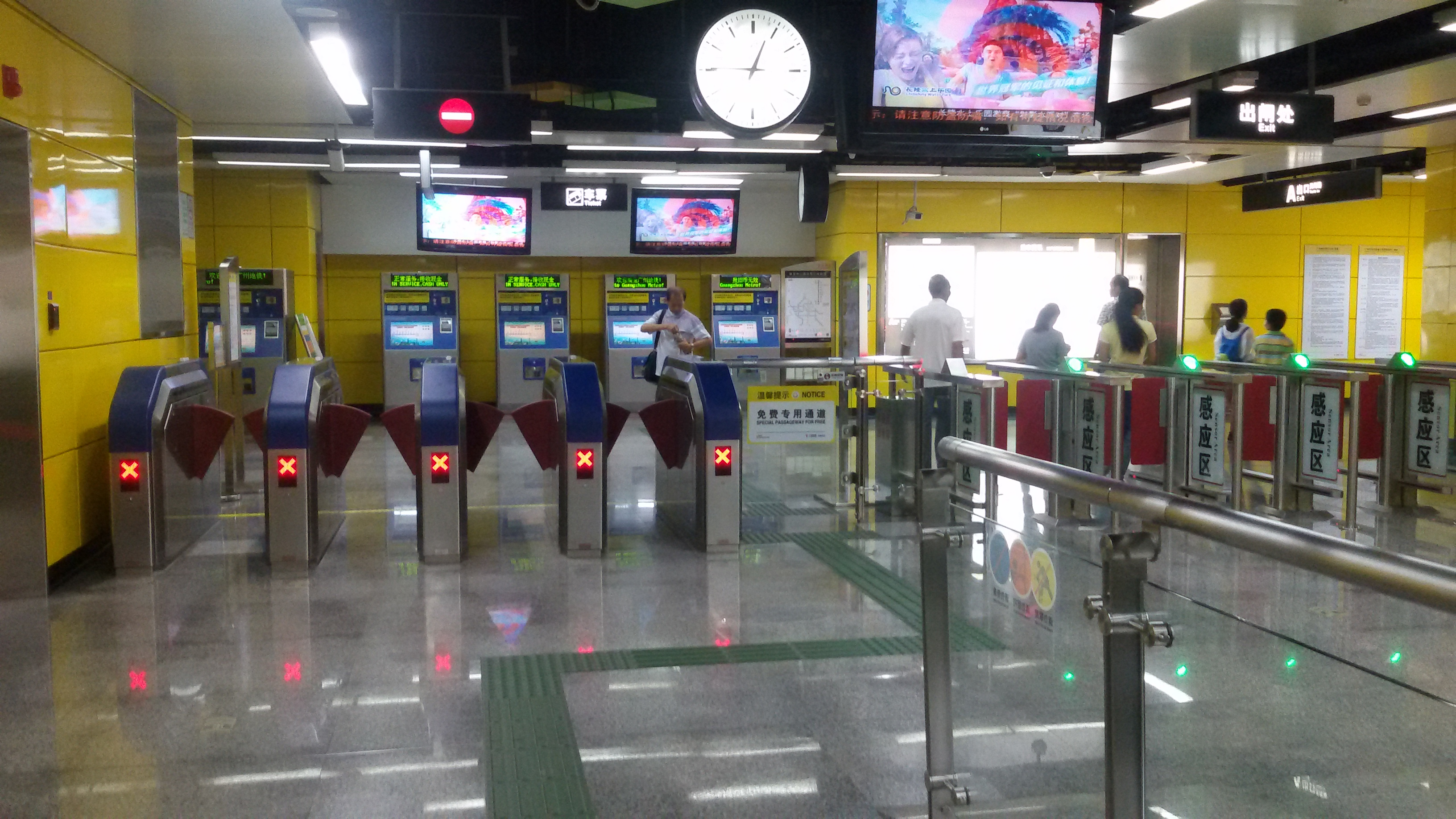 Station Concourse for Tianhe Sports Center South Station, Guangzhou Metro.